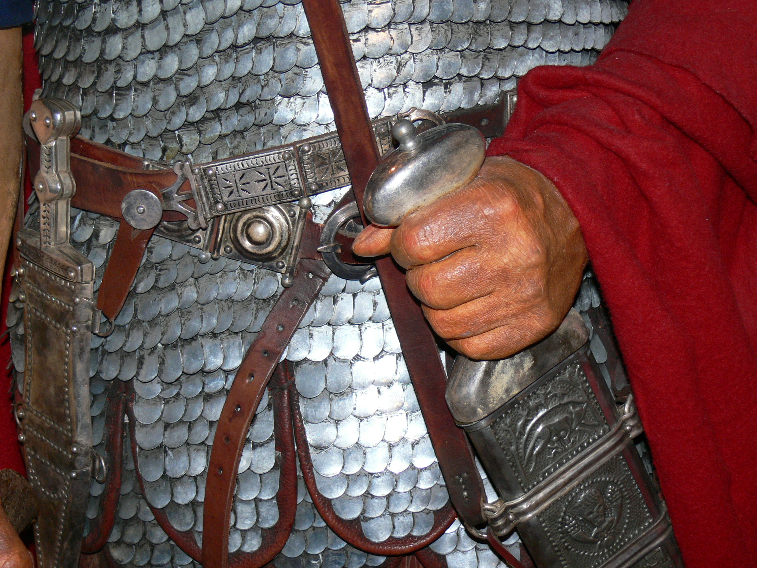 Museum Quintana - Roman department. Reconstruction of a Roman centurio - cingulum ( belt ), pugio ( dagger ) and gladius ( sword )